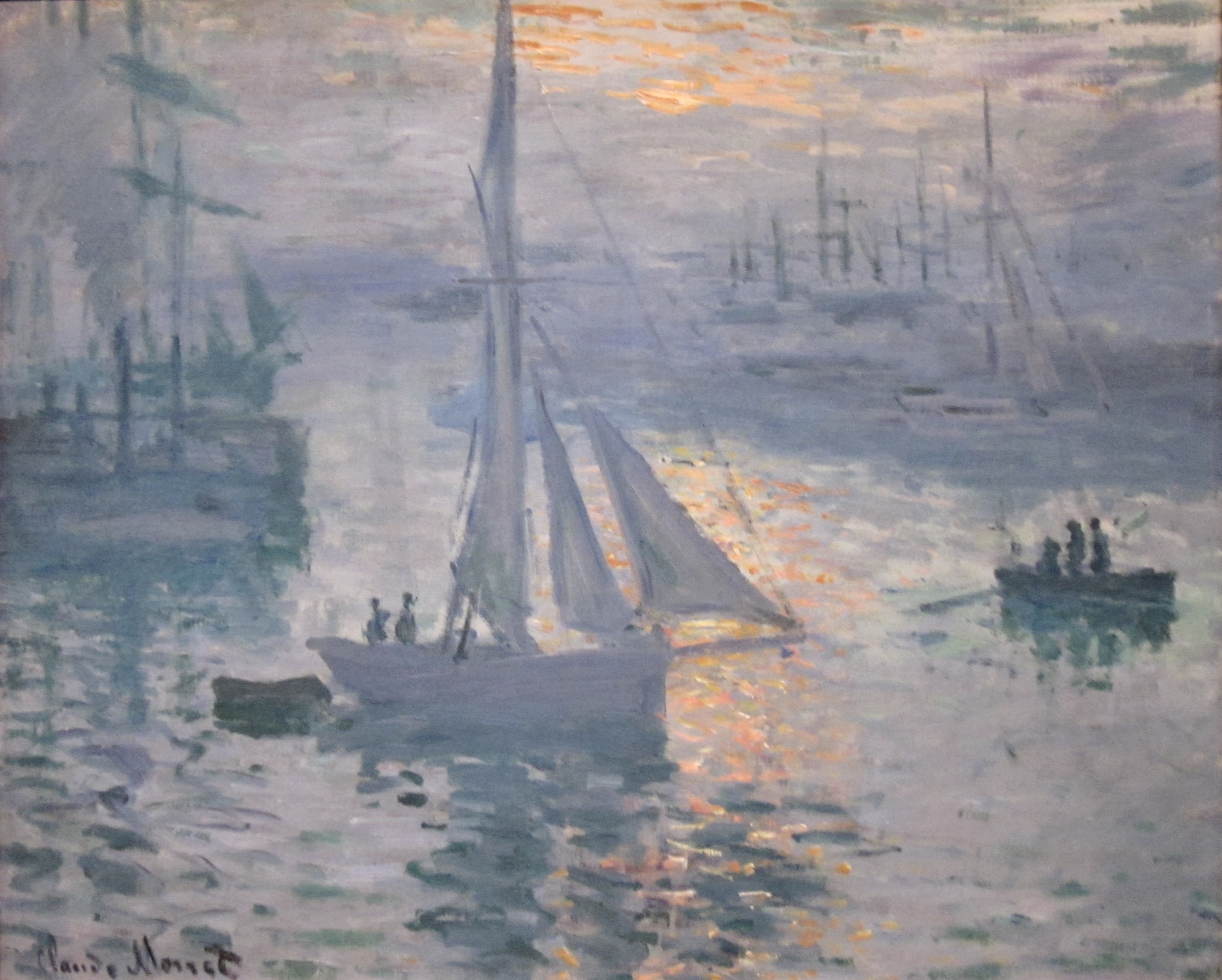 Sunrise, oil on canvas painting by Claude Monet, 1873, Getty Center